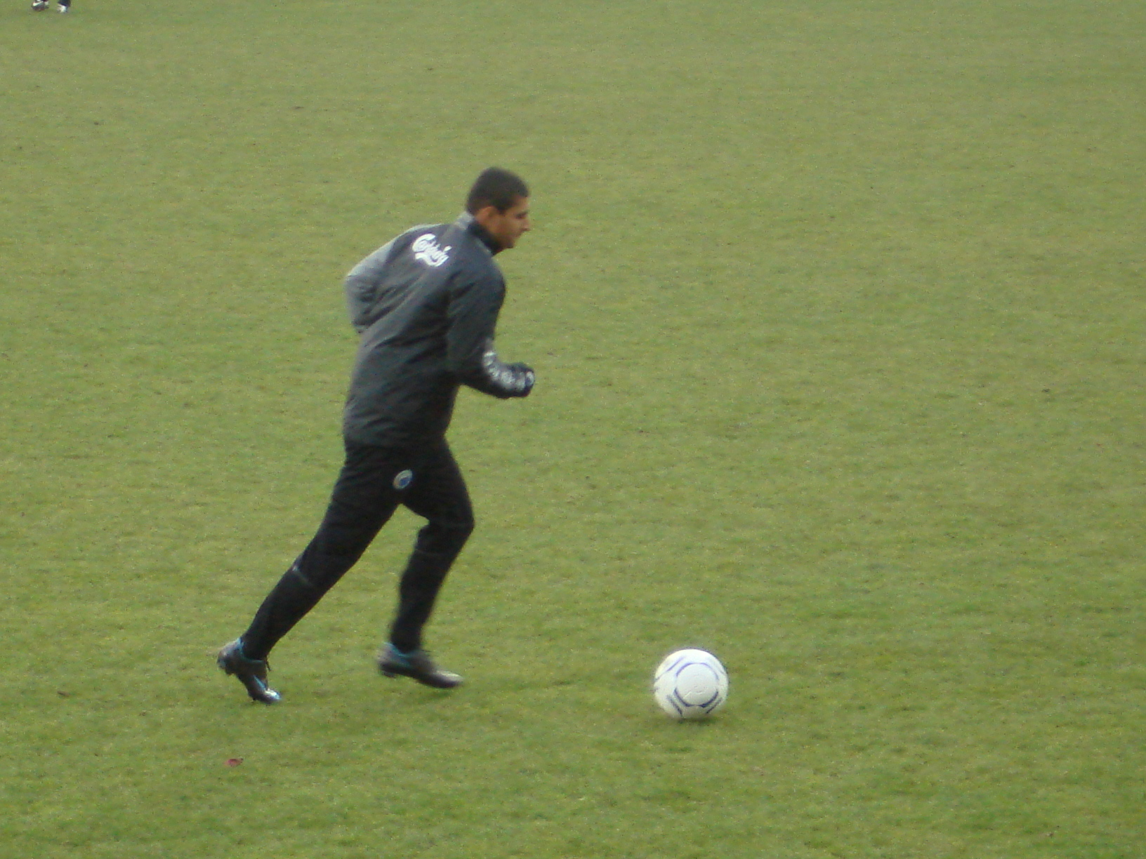 The Brazilian soccer player Aílton José Almeida (FC Copenhagen)